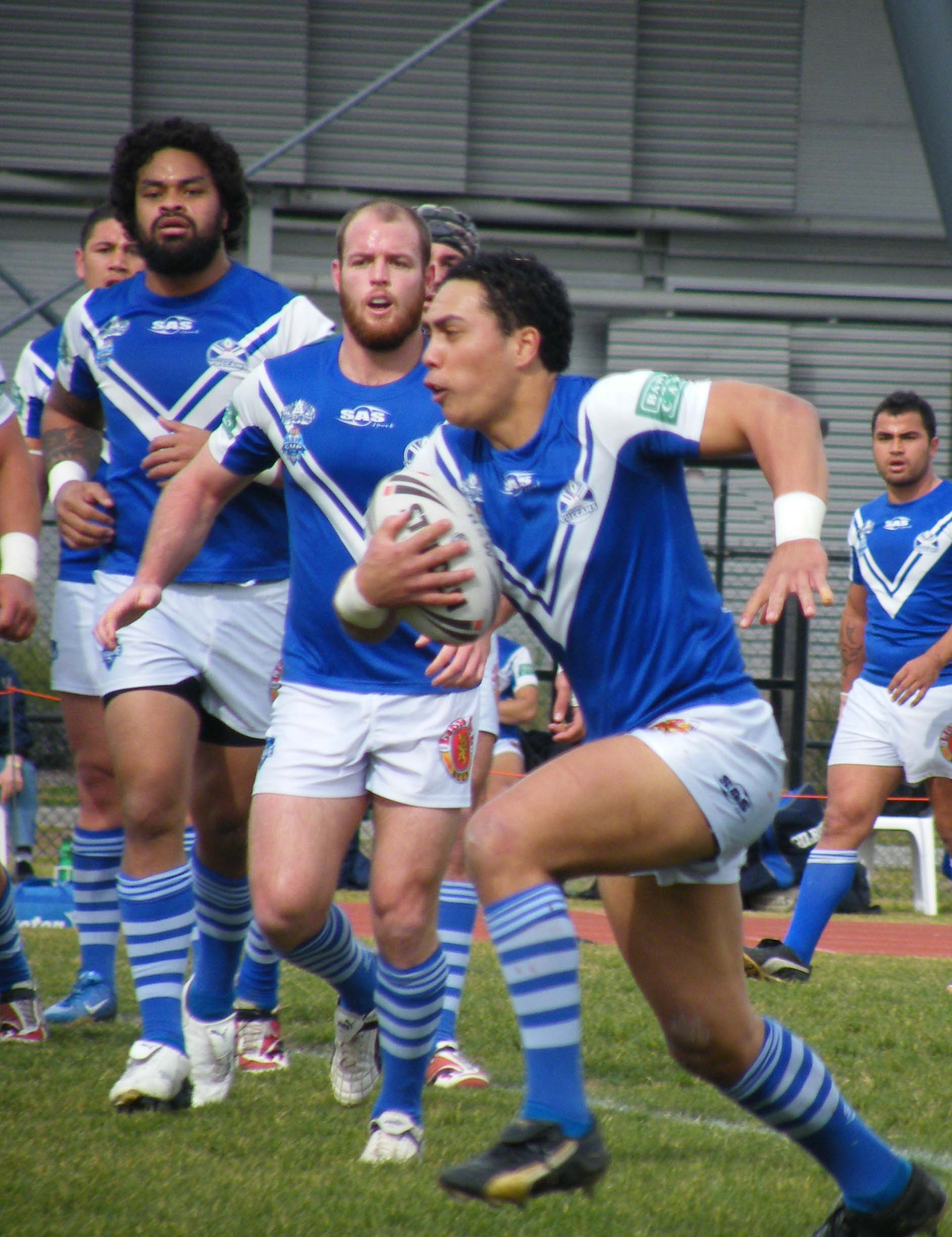 Vulcan Centre Henry Turua